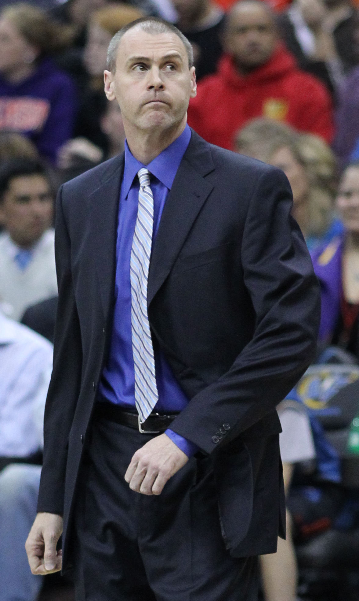 Rick Carlisle head coach of the Dallas Mavericks during a game against the Washington Wizards at the Verizon Center on February 26, 2011 in Washington, DC.